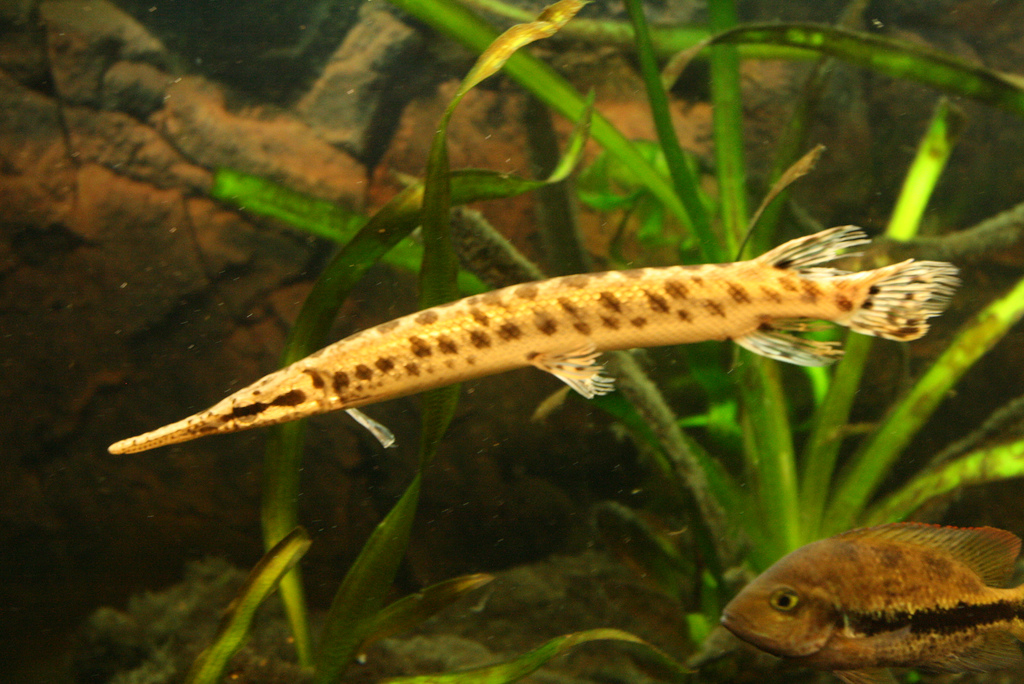 Lepisosteus oculatus. Just got that one. Its 30cm.